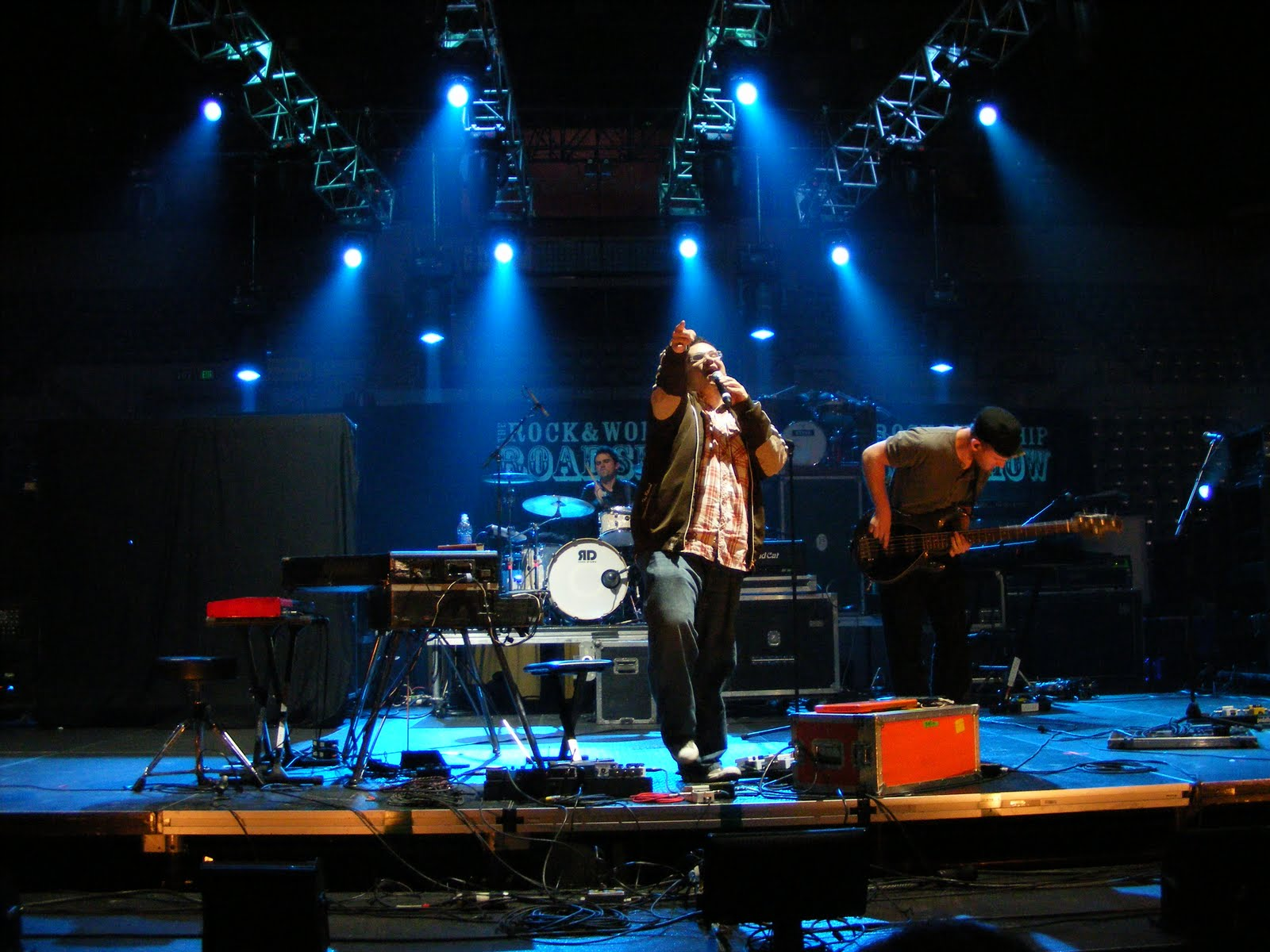 Concert Photo of Sidewalk Prophets